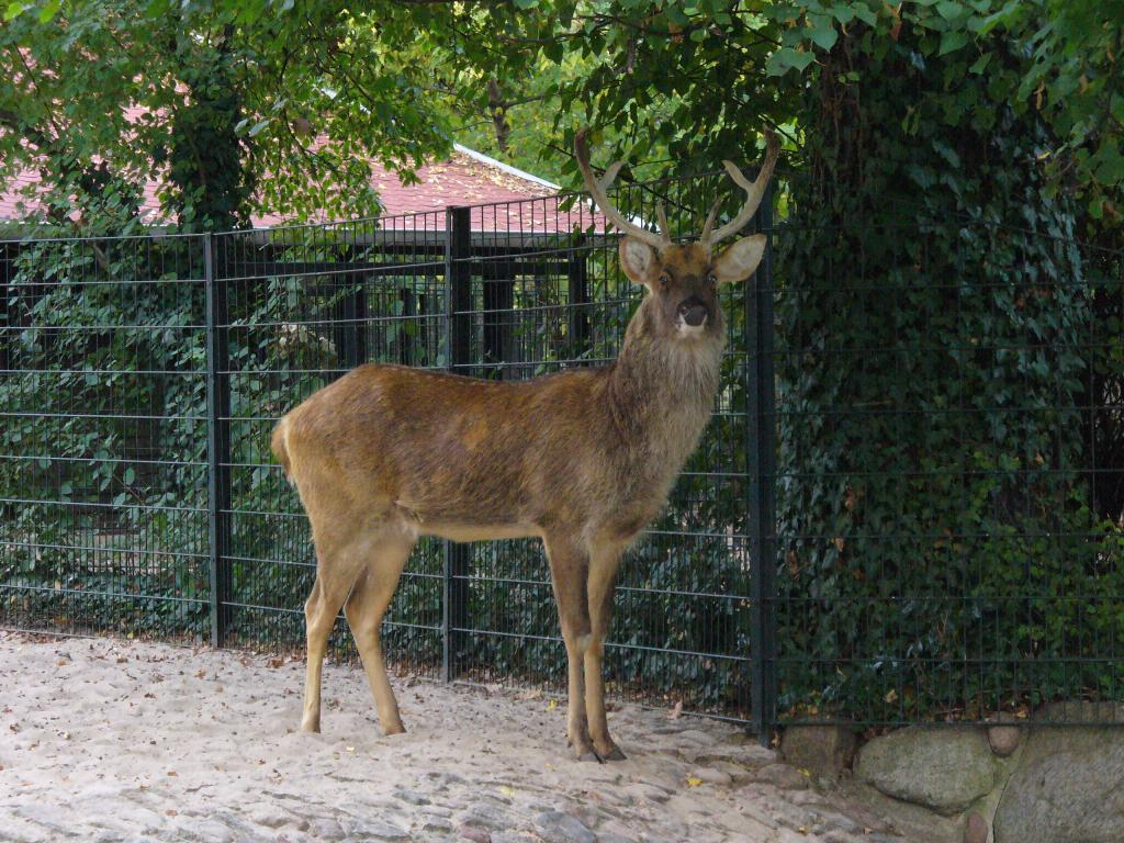 Barasingha, deer native to Nepal and India